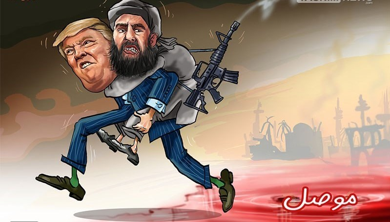 Daesh (also ISIL) chief Abu Bakr al-Baghdadi is reported to have abandoned Mosul.